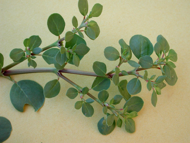 Trianthema portulacastrum, Desert Horse-purslane, from Maricopa Co., Arizona, USA.